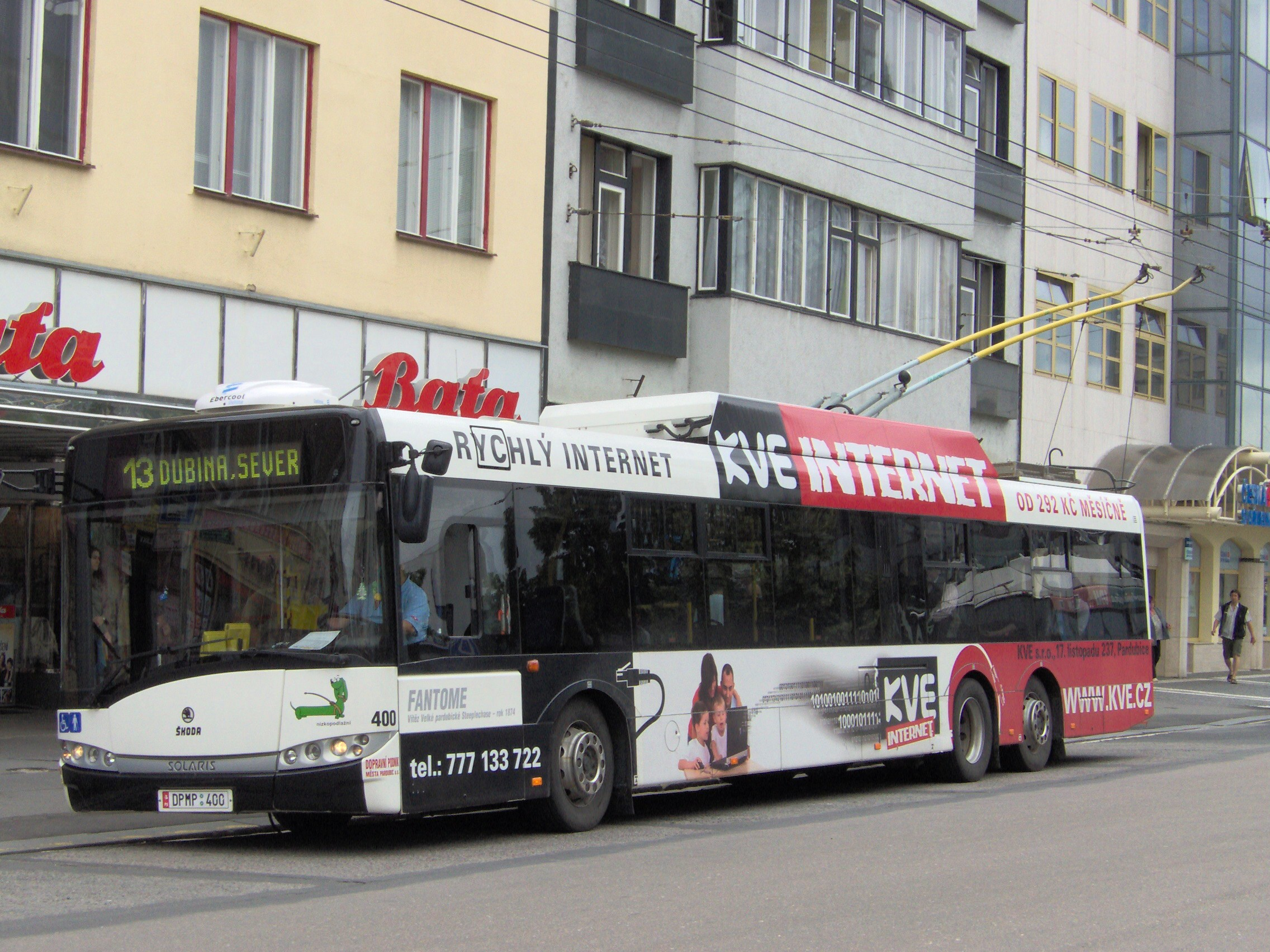 Škoda 28Tr Solaris trolleybus, Pardubice, Czech Republic